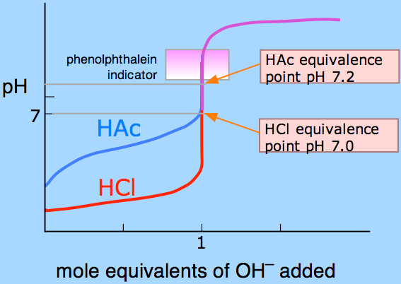 Titration curves for hydrochloric and acetic acid